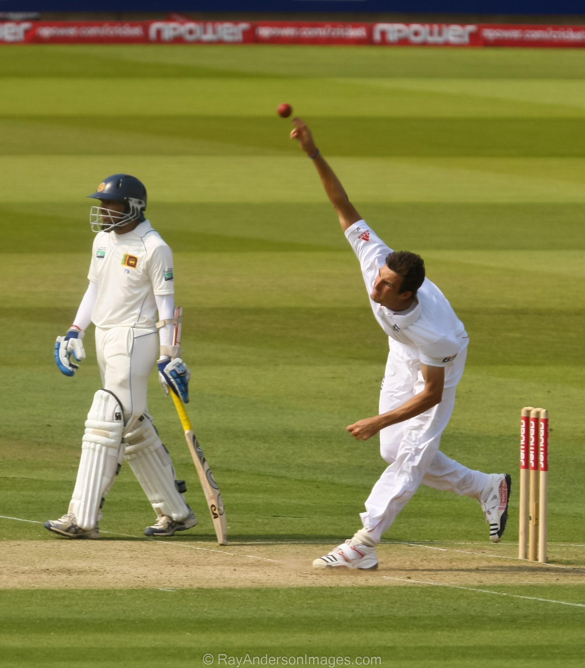 Steven Finn bowling at Lord's against Sri Lanka in the second Test. Scorecard.